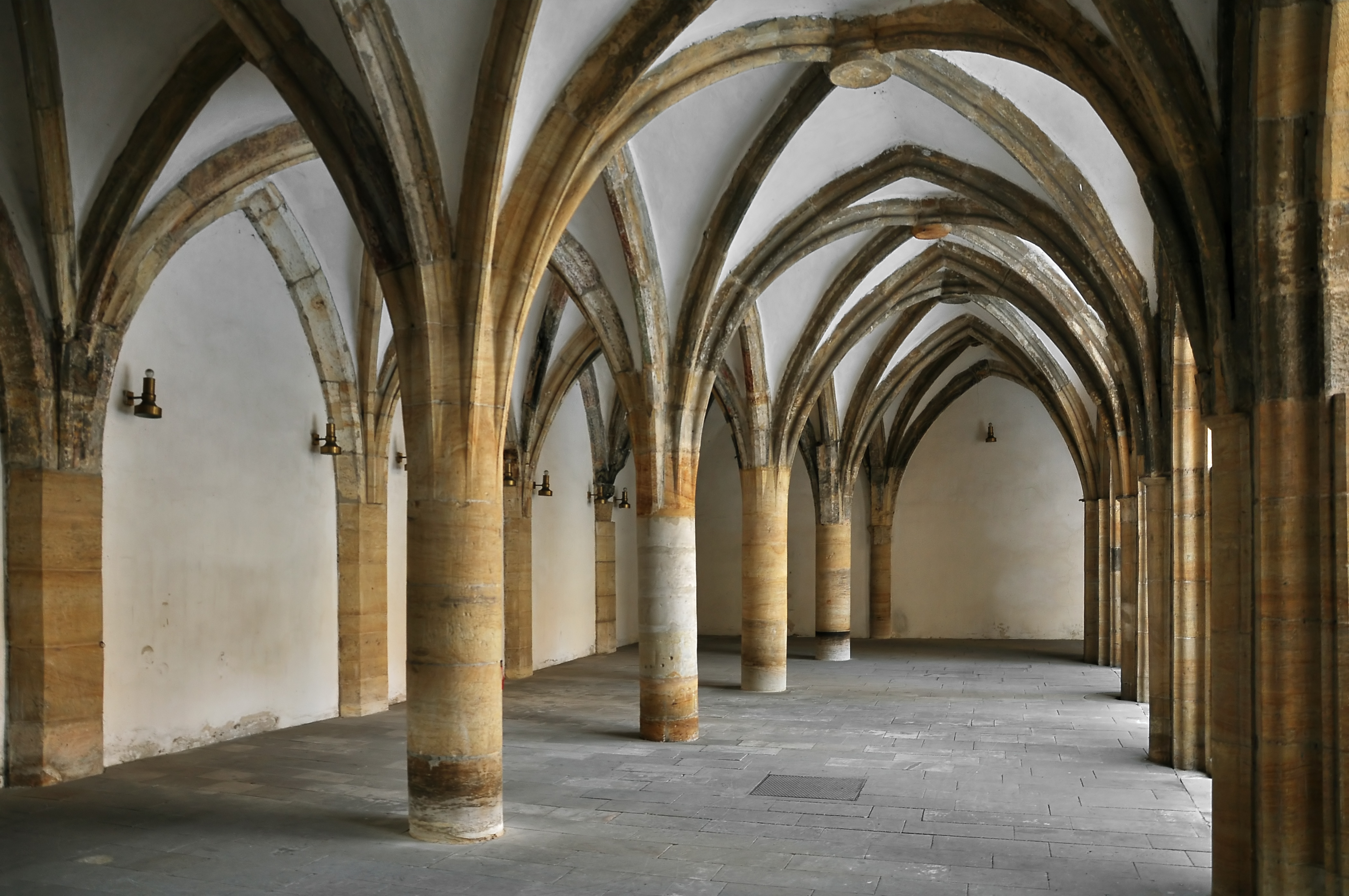 Cloister of the monastery of st. James in Prague